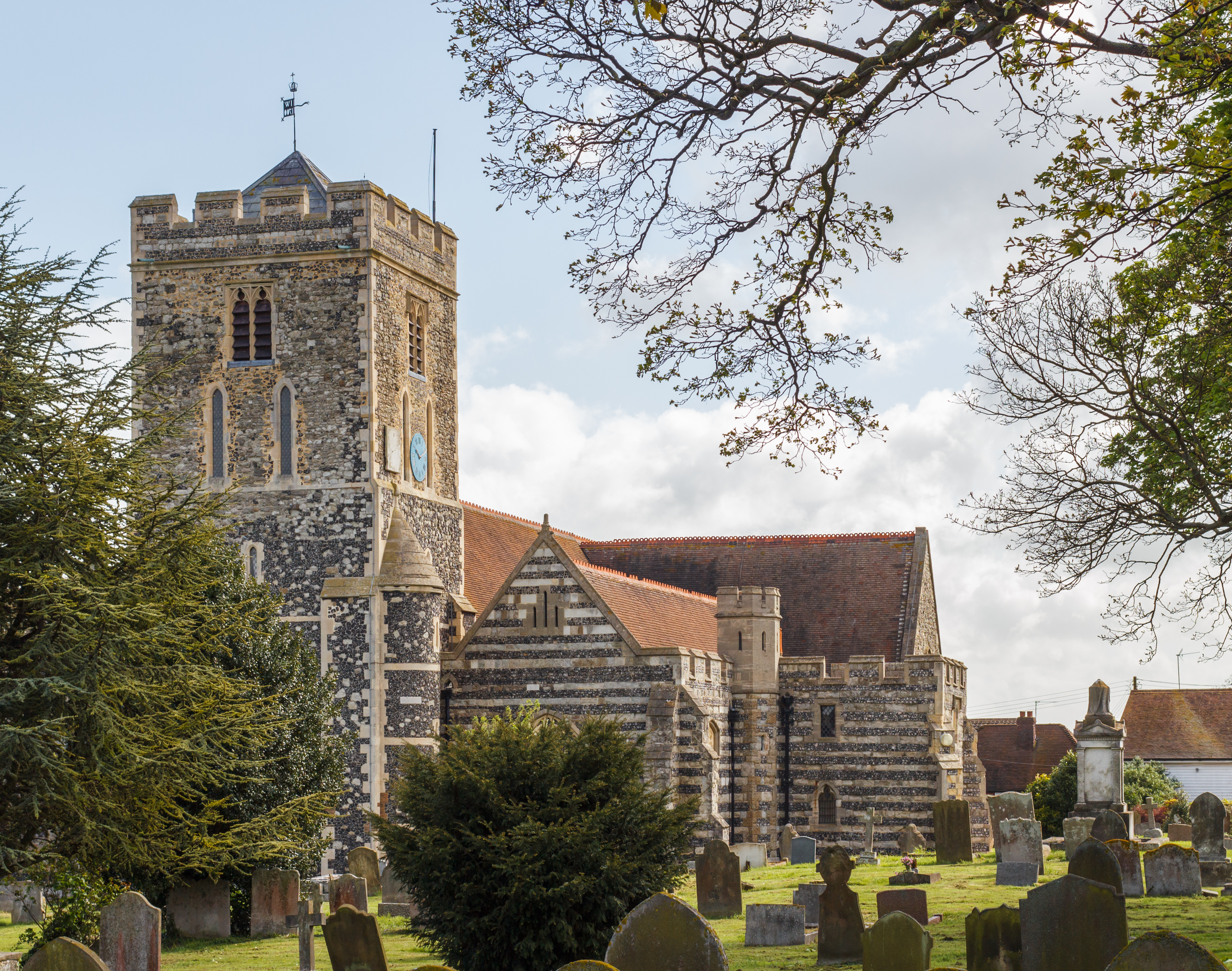 St Helen's Church, Cliffe, Kent, England